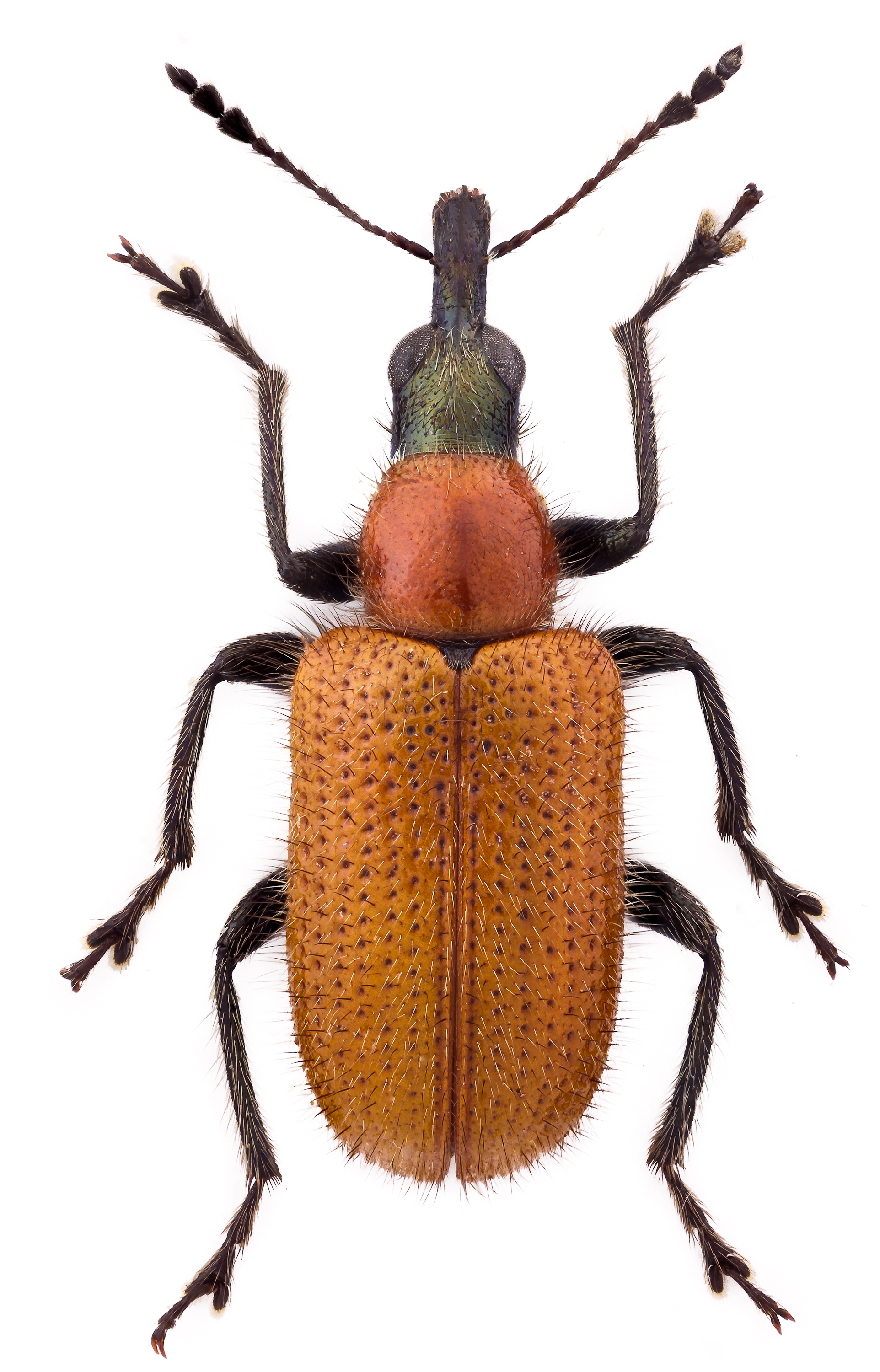 Lasiorhynchites coeruleocephalus